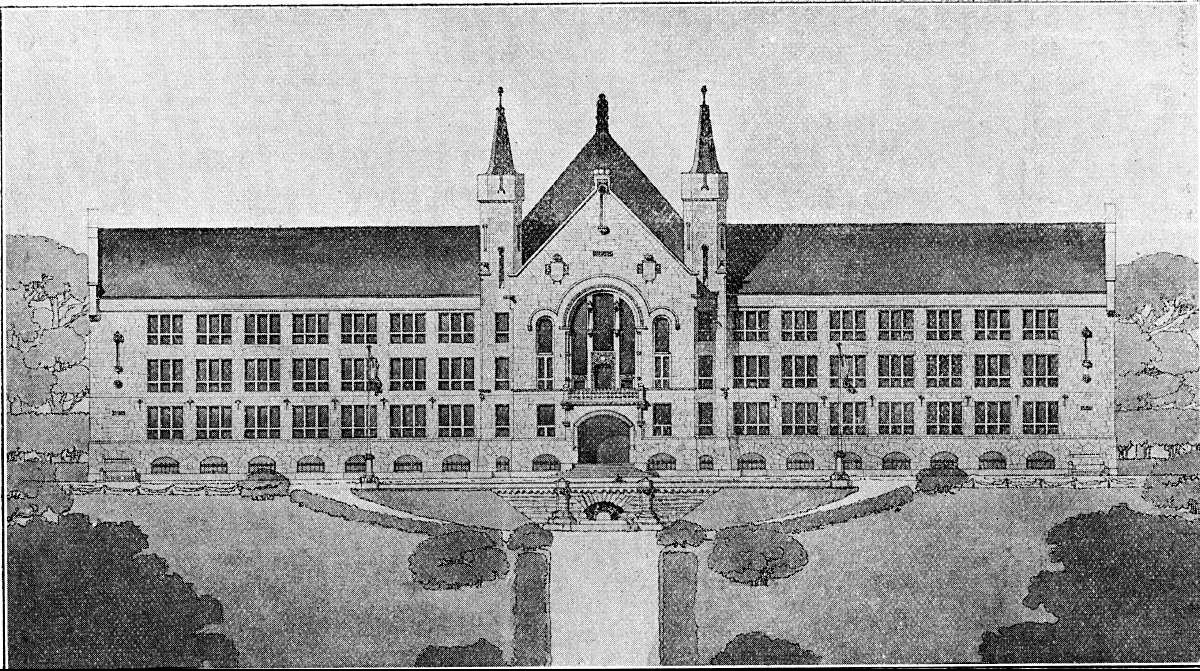 Drawing of the north facade, part of an entry in the architecture competition for The main building(=Hovedbygningen) of The Norwegian Institute of Science and Technology. Motto: Vis-à-vis Domkirken. Architect: Bredo Greve. 3rd prize, but this project was chosen to be built